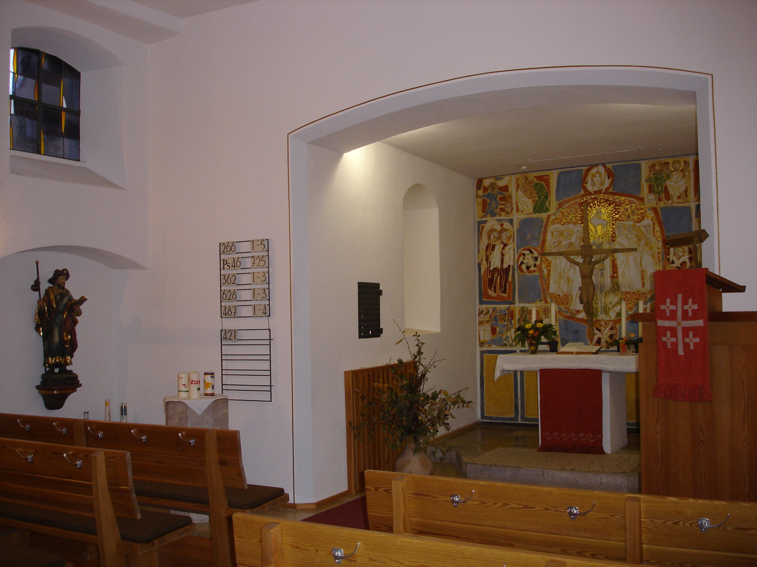 Saint James church in Lonsee-Sonabronn